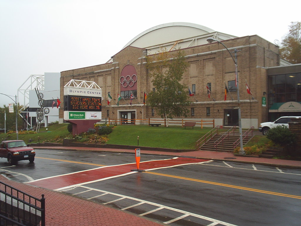 Lake Placid Olympic Center. This is where the Miracle On Ice hockey game between the United States and the USSR happened in the 1980 Winter Olympics.